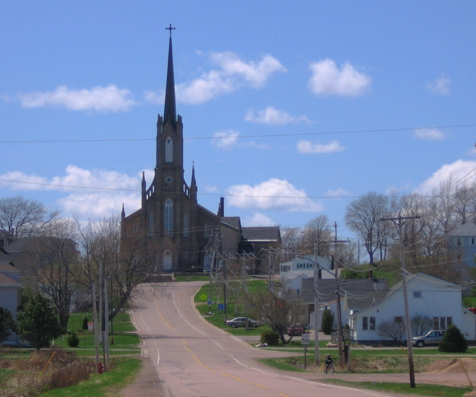 View of the community of St. Joseph in Memramcook, New Brunswick. The view is from from the Memramcook marsh and shows Saint-Thomas de Memramcook Church.